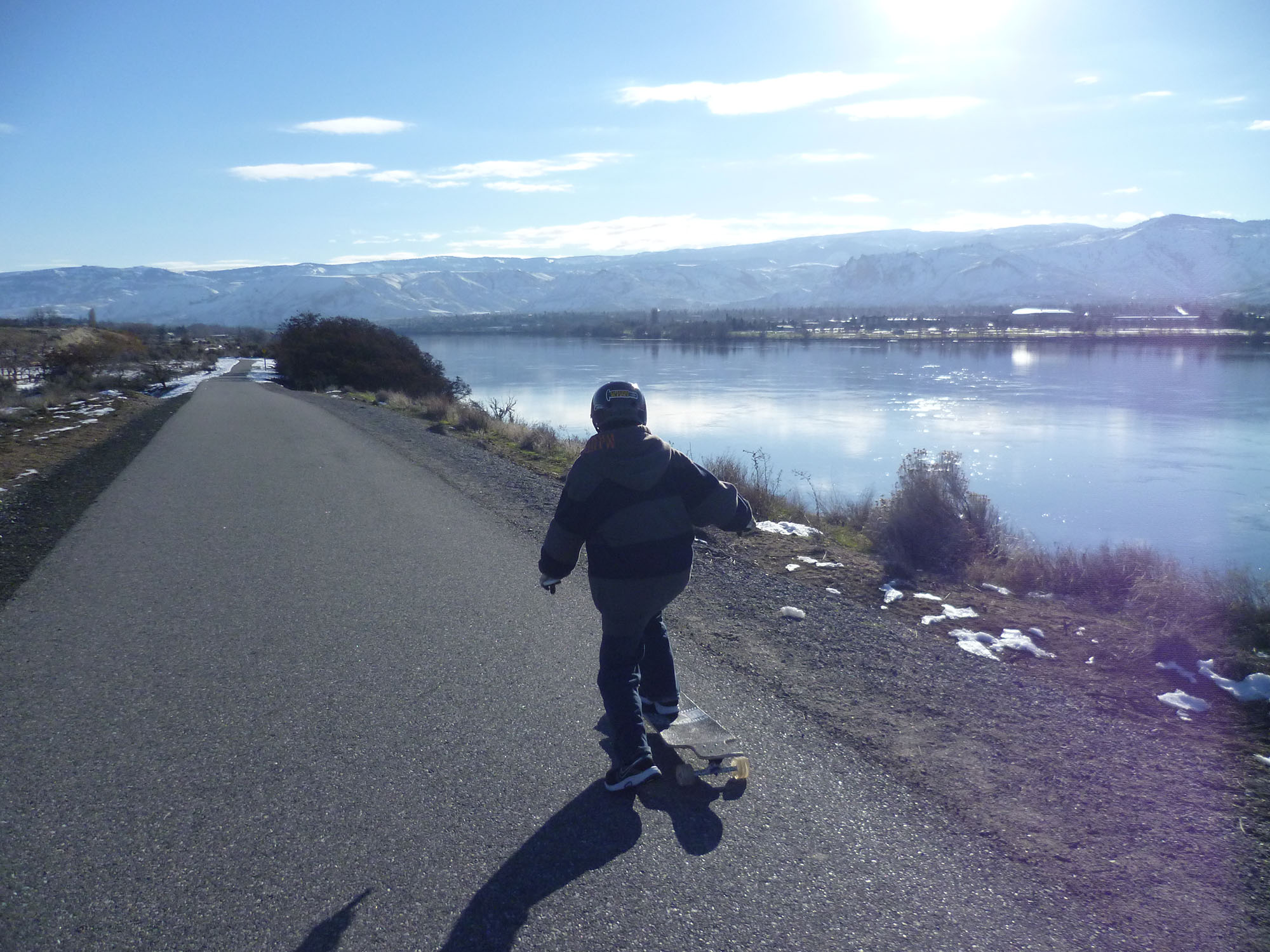 Longboarding along the Columbia River East Wenatchee Washington